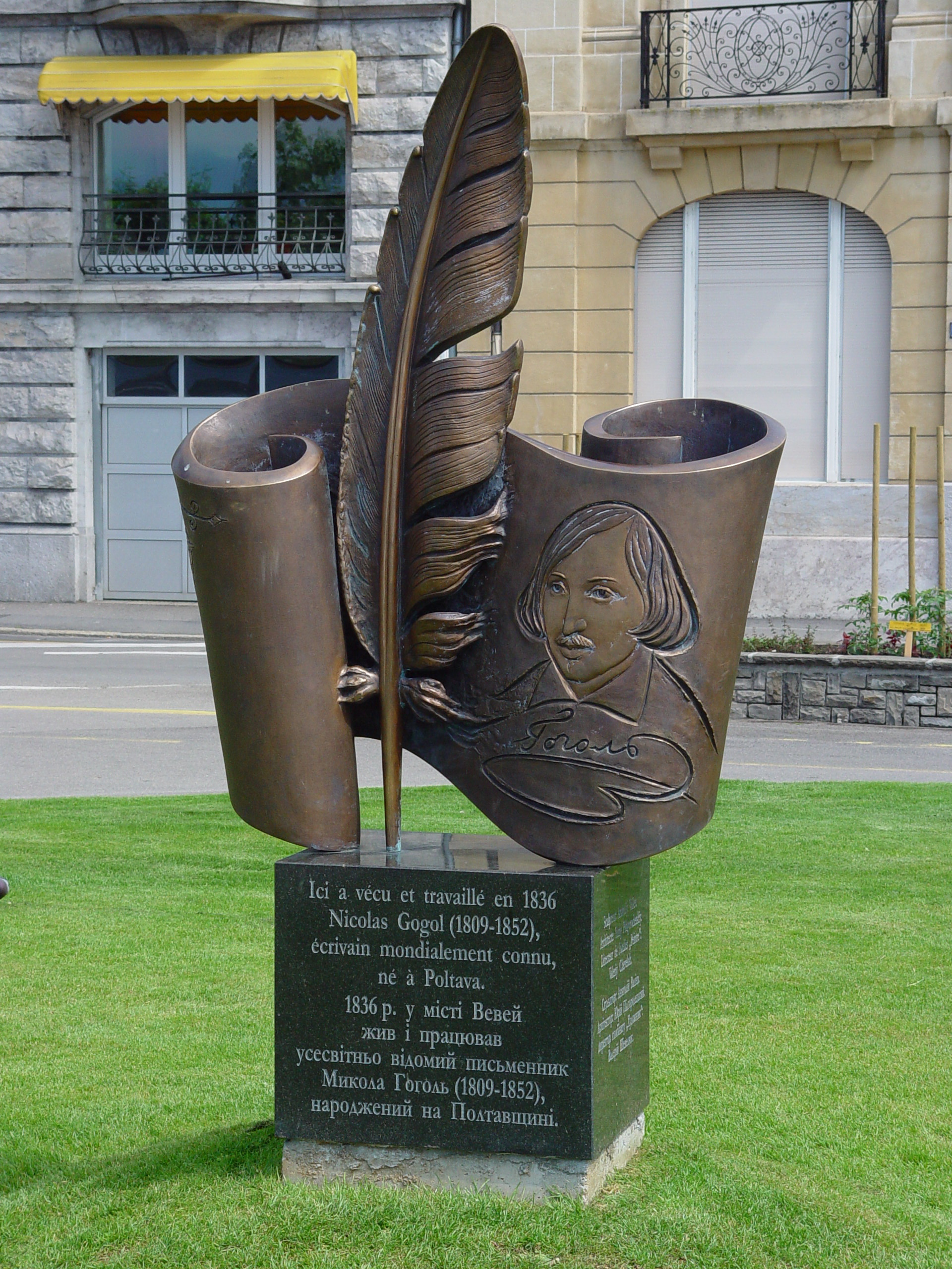 Monument to Mykola Gogol in the Swiss town of Vevey. Sculptor: Anatoliy Valiev, from Ukraine.